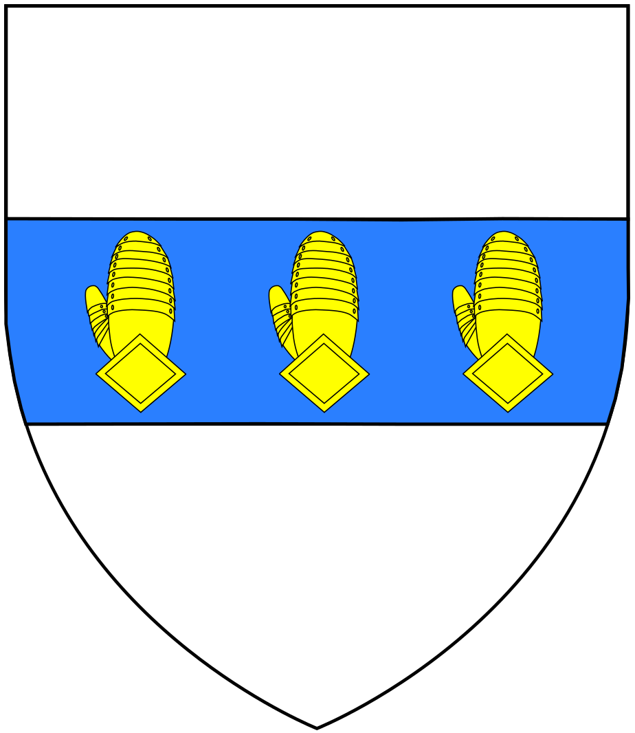 Arms of Fane of Boyton: Argent, on a fess azure three dexter gauntlets appaumy or (Source: Debrett's Peerage, 2015, p.258, Baron Clinton (Fane-Trefusis)), a differenced version of Fane, Earl of Westmorland. Rev. Arthur Fane (1809–1872), of Boyton Manor, Codford, in Wiltshire, domestic chaplain to his cousin the Earl of Westmorland and Rector of Fulbeck in Norfolk, was the 2nd illegitimate son of General Sir Henry Fane (1778-1840), GCB, Commander-in-Chief of India, the eldest son of Hon. Henry Fane (d.1802), of Fulbeck Hall, Lincolnshire, a younger son of Thomas Fane, 8th Earl of Westmorland, whose arms were: Azure, three dexter gauntlets back affrontée or